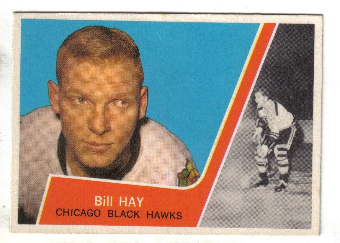 Bill Hay